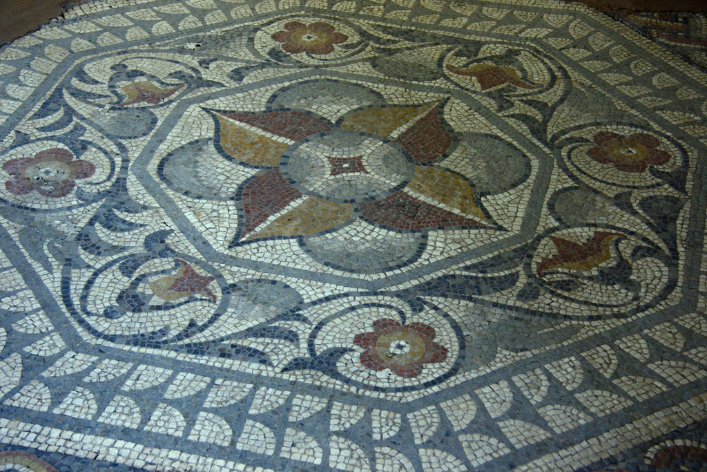 Roman mosaic in the Jewry Wall museum.(Originally posted to "Guess Where UK")Known as the Blackfriars pavement,for a long time this was situated in a chamber below the viaduct of the Great Central railway.It was moved to the museum in 1977.See for details of Roman Leicester.